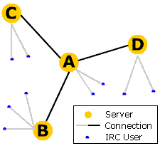 Created by myself.